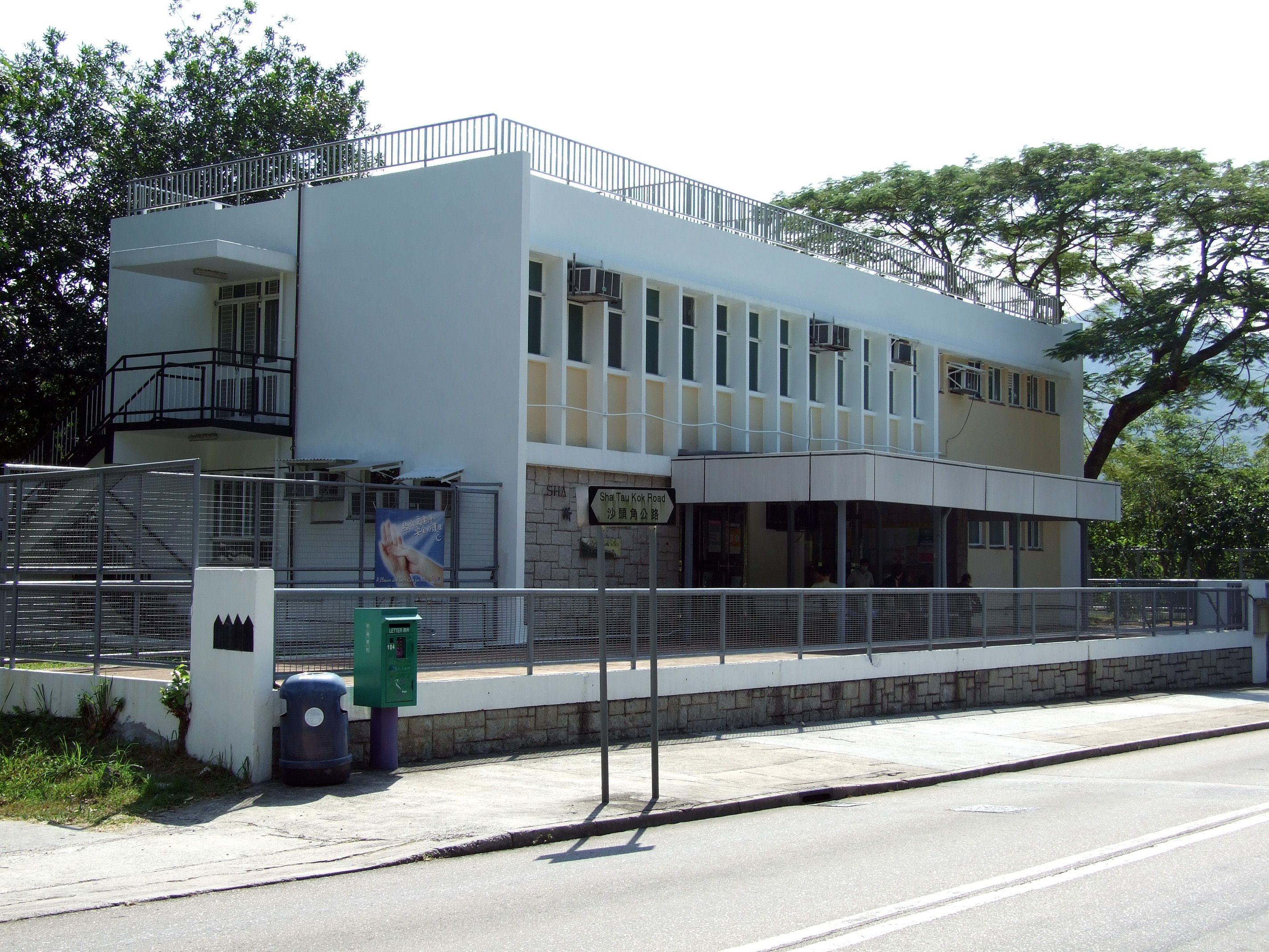 沙頭角診所